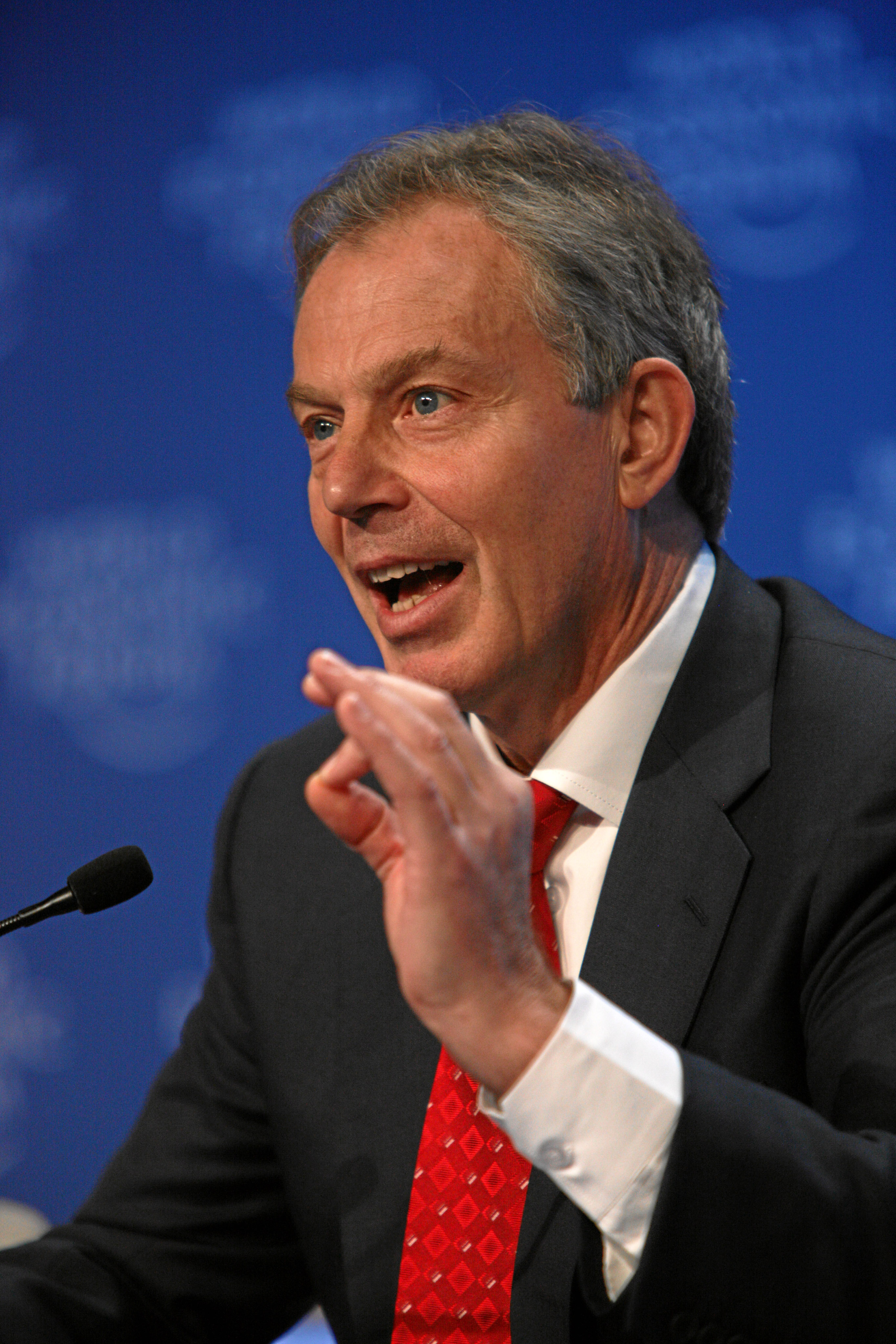 DAVOS-KLOSTERS/SWITZERLAND, 29JAN09 - Tony Blair, UN Middle East Quartet Representative; Member of the Foundation Board of the World Economic Forum captured during the session 'The Values behind Market Capitalism' at the Annual Meeting 2009 of the World Economic Forum in Davos, Switzerland, January 29, 2009. Copyright by World Economic Forum by Remy Steinegger